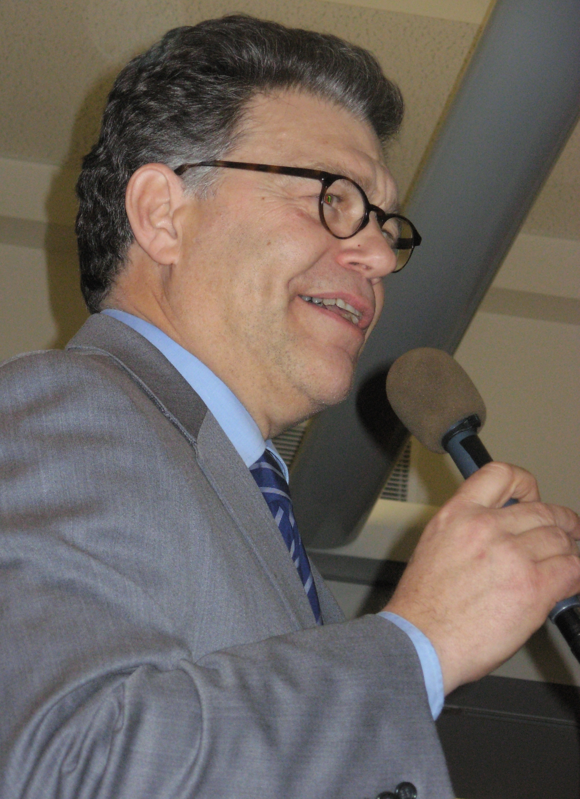 United States Senate candidate Al Franken (1951–) Alternative names Alan Stuart FrankenDescriptionAmerican politician, comedian and writerDate of birth 21 May 1951 Location of birth Manhattan Work period1973-presentWork location United StatesAuthority control : Q319084 VIAF: 86425630 ISNI: 0000 0001 1681 9289 LCCN: no93004145 NLA: 40034595 MusicBrainz: b0a3dda1-2cc0-404e-a26d-cdb3f302eb41 WorldCat creator QS:P170,Q319084 speaking in Rochester, Minnesota